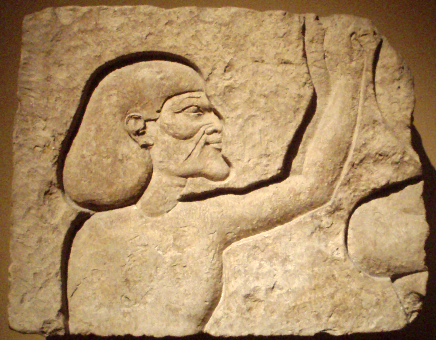 Relief of asiatic prisoner, likely from the reign of Ramses II, circa 1279-1213 B.C.